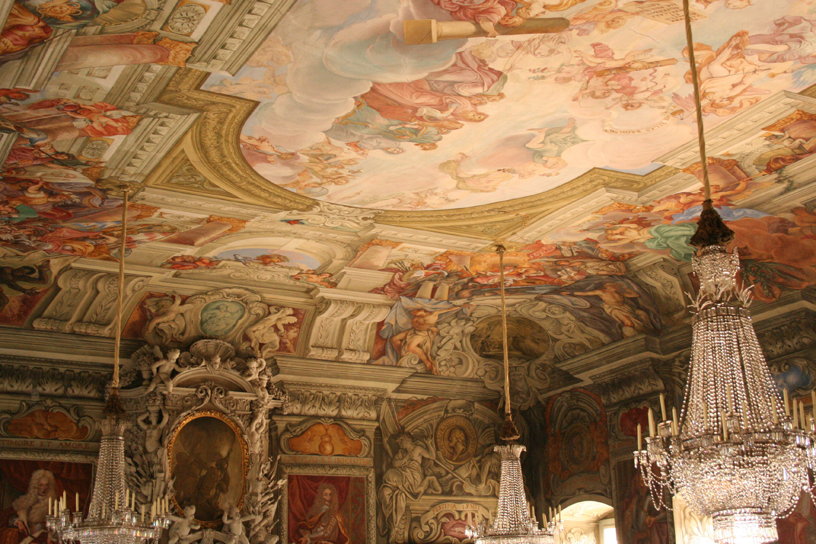 Emperor's Hall in the New Bamberg Residency, Germany. Frescoes depicting the four empires of antiquity (corners) and the triumph of wisdom in the Holy Roman Empire (ceiling).